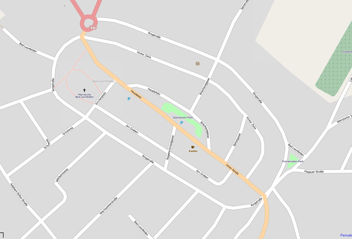 Center of the City Bad Leonfelden, Upper Austria